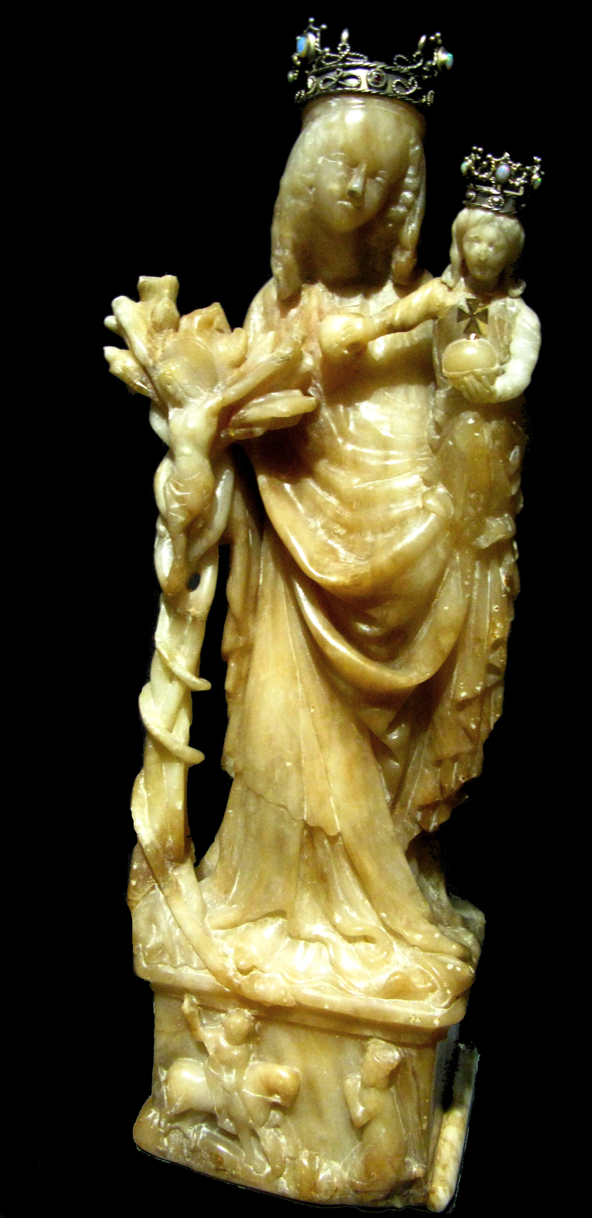 So called Madonna of Saint Jacek Odrowąż